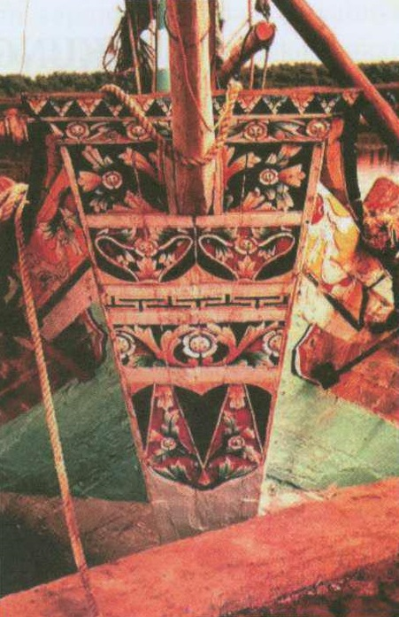 A photo showing decorated face of a janggolan prow.